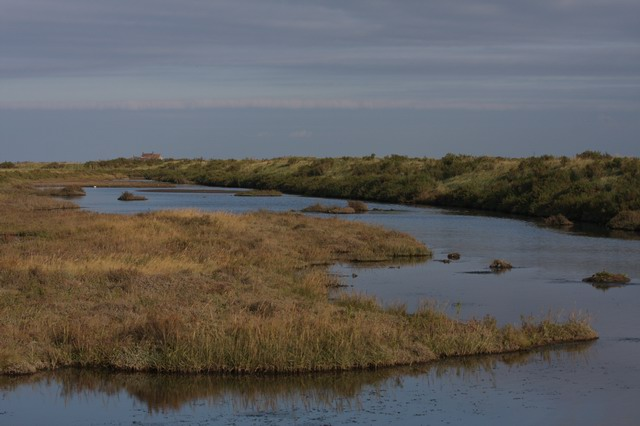 Titchwell saltmarsh Tidal area towards the end of the path to the beach.